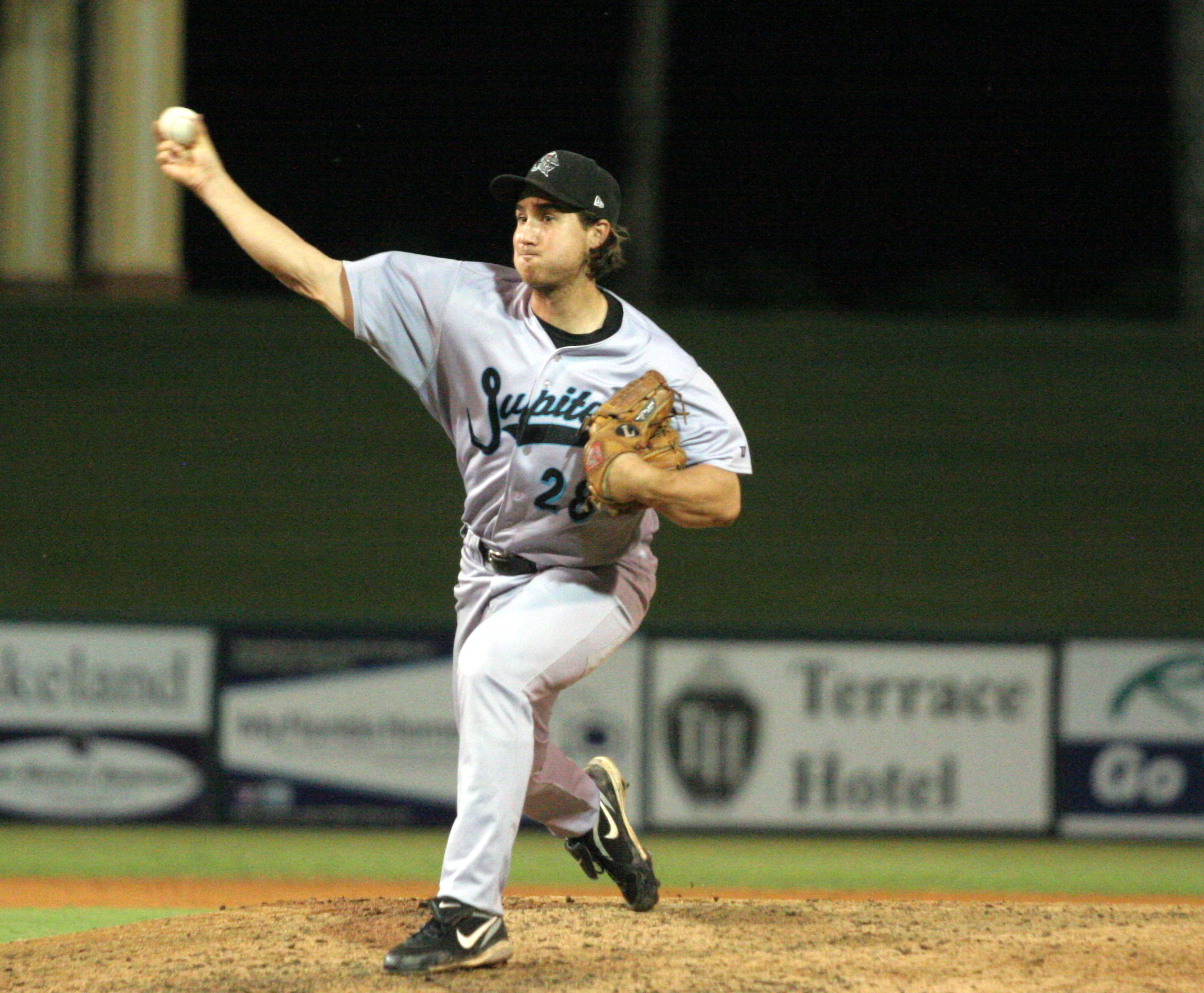 Michael Brady pitches for the Jupiter Hammerheads in 2012